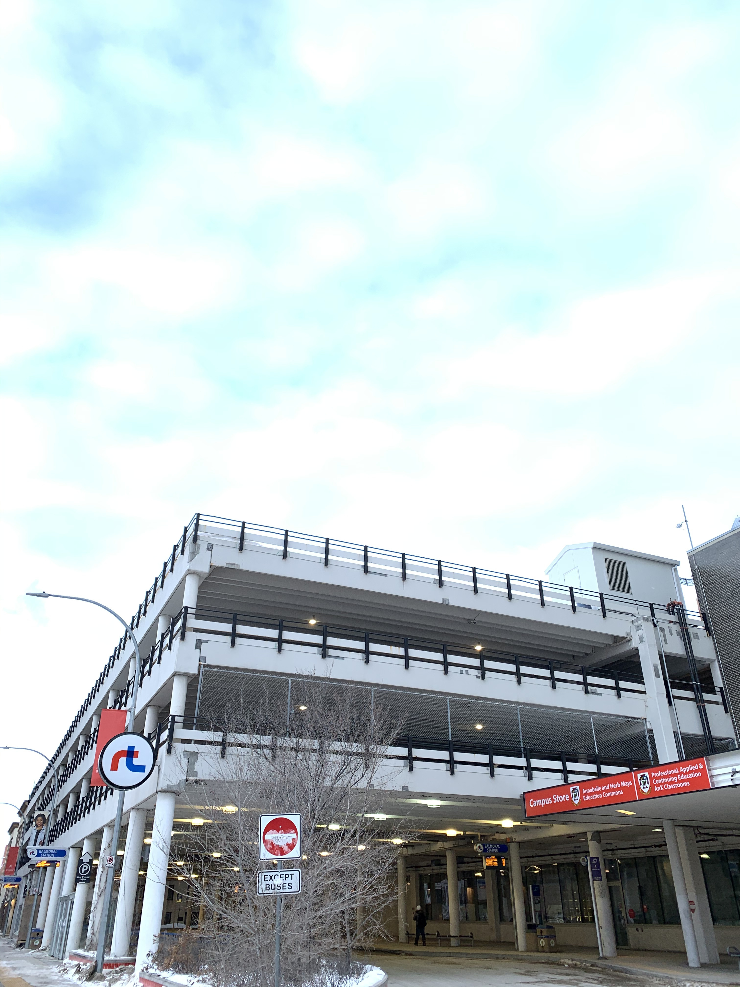 Main transit hub at the University of Winnipeg, connects with the city’s rapid transit corridor.